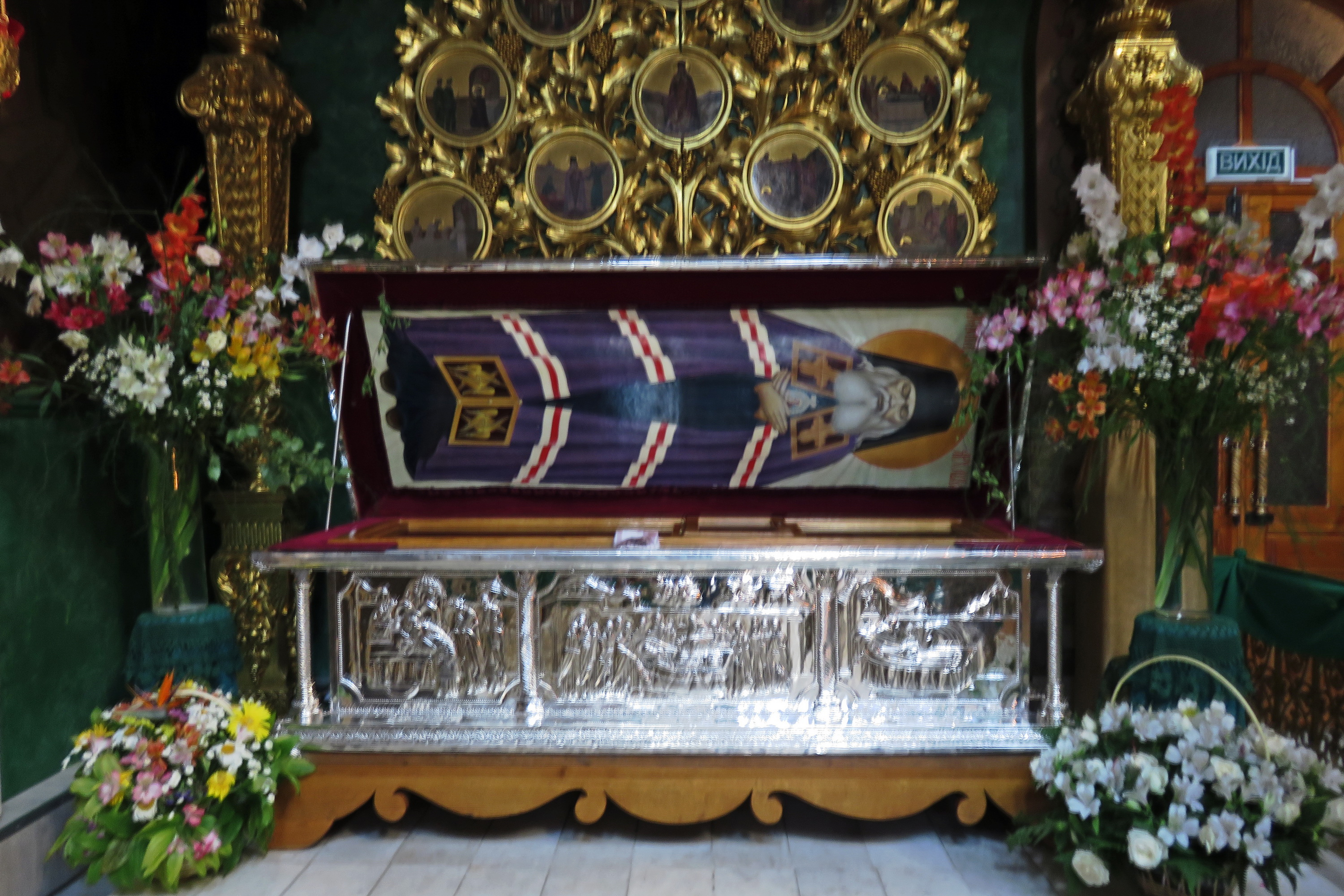 Simferopol, Cathedral of Holy Trinity